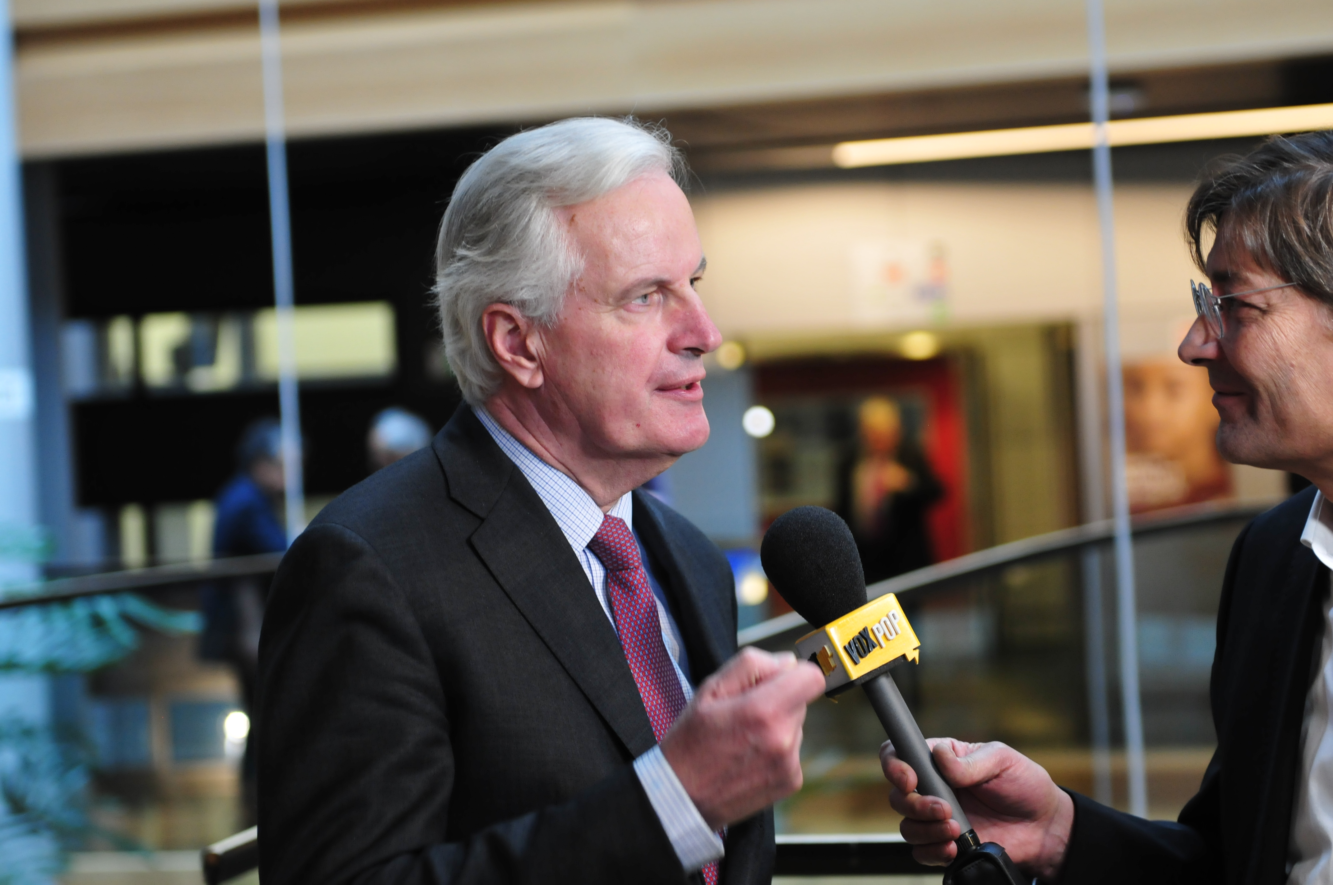 Michel Barnier, french politican in european parliament